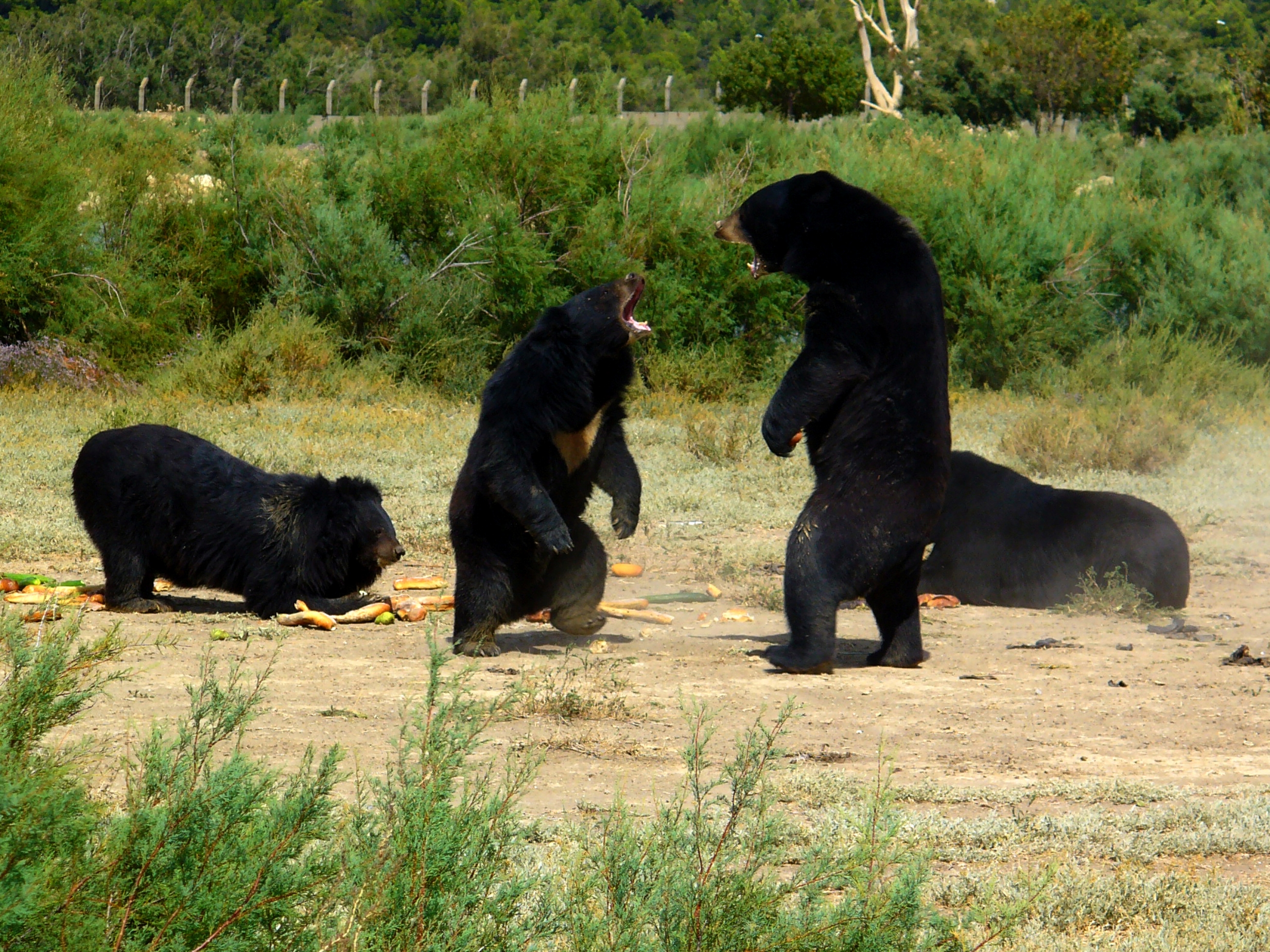 Ursus thibetanus, Ursidae, Asian Black Bear, Moon Bear, White-chested Bear; Réserve africaine de Sigean, Sigean, France